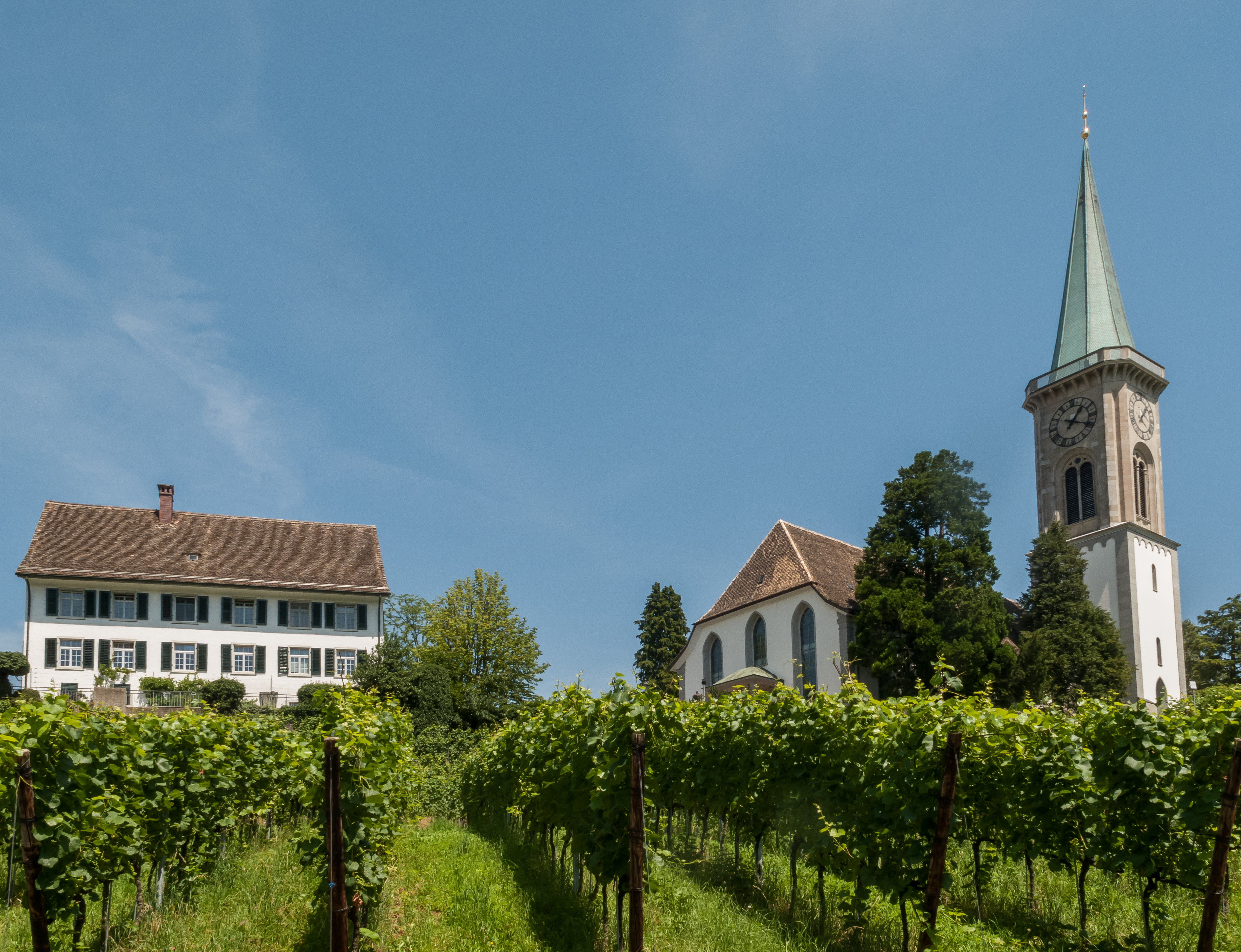 Stäfa, reformed church